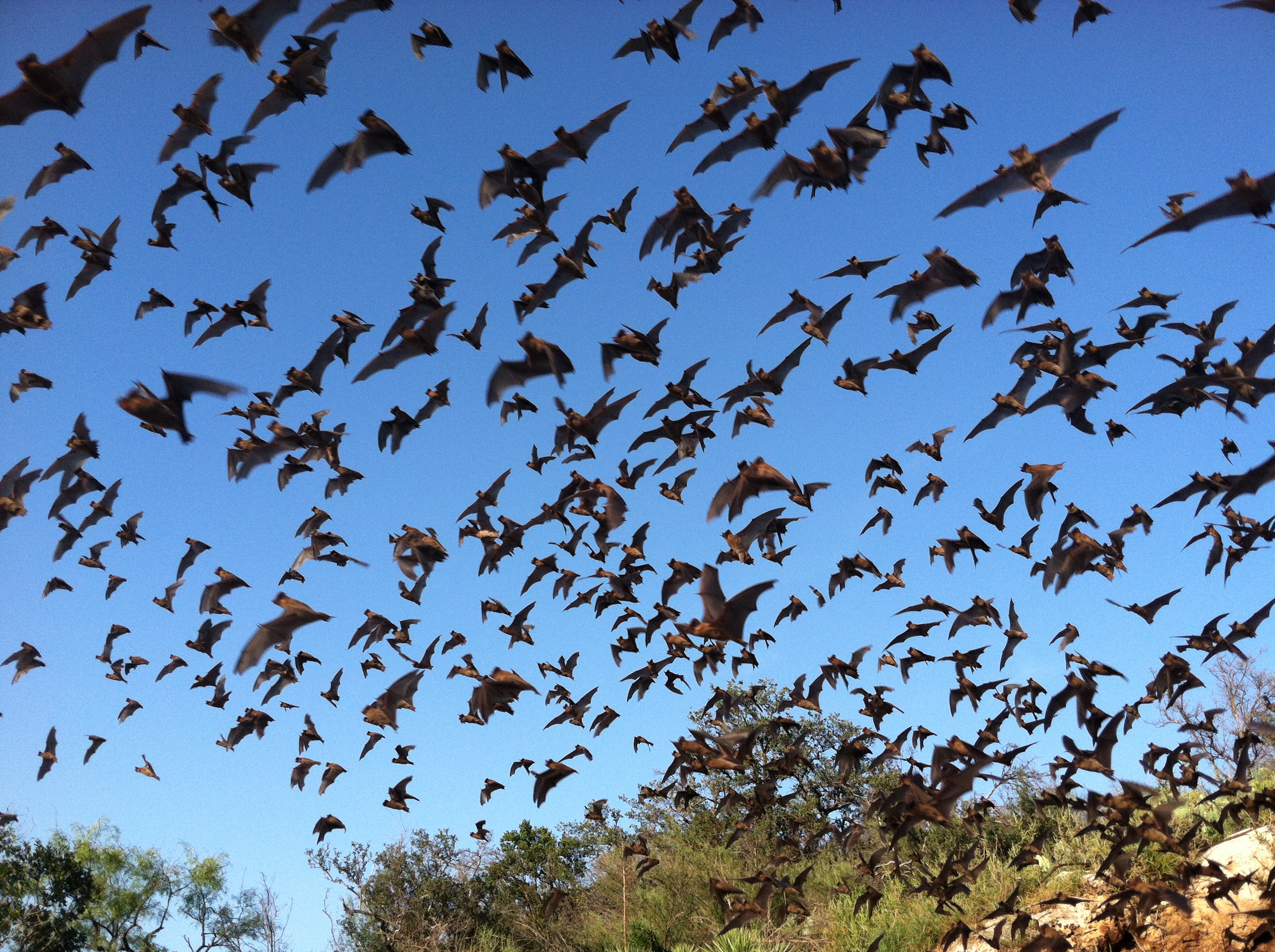 photo credit: USFWS/Ann Froschauer